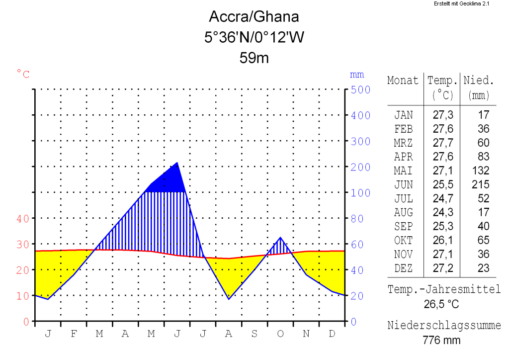 climate chart in the format by Walter and Lieth, metric, °Celsisus and millimeters, made with Geoklima 2.1